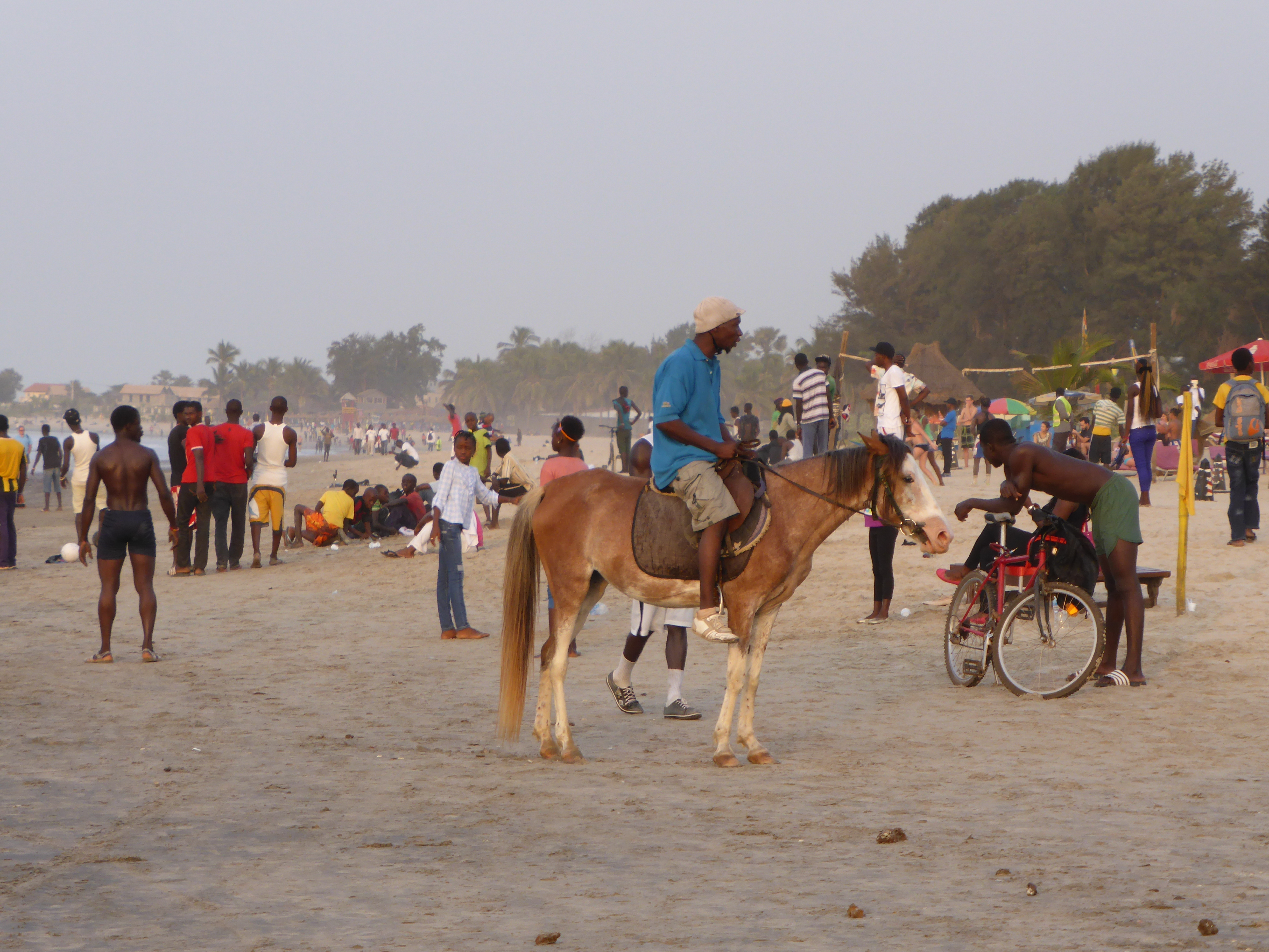 GambiaKololiBeach043